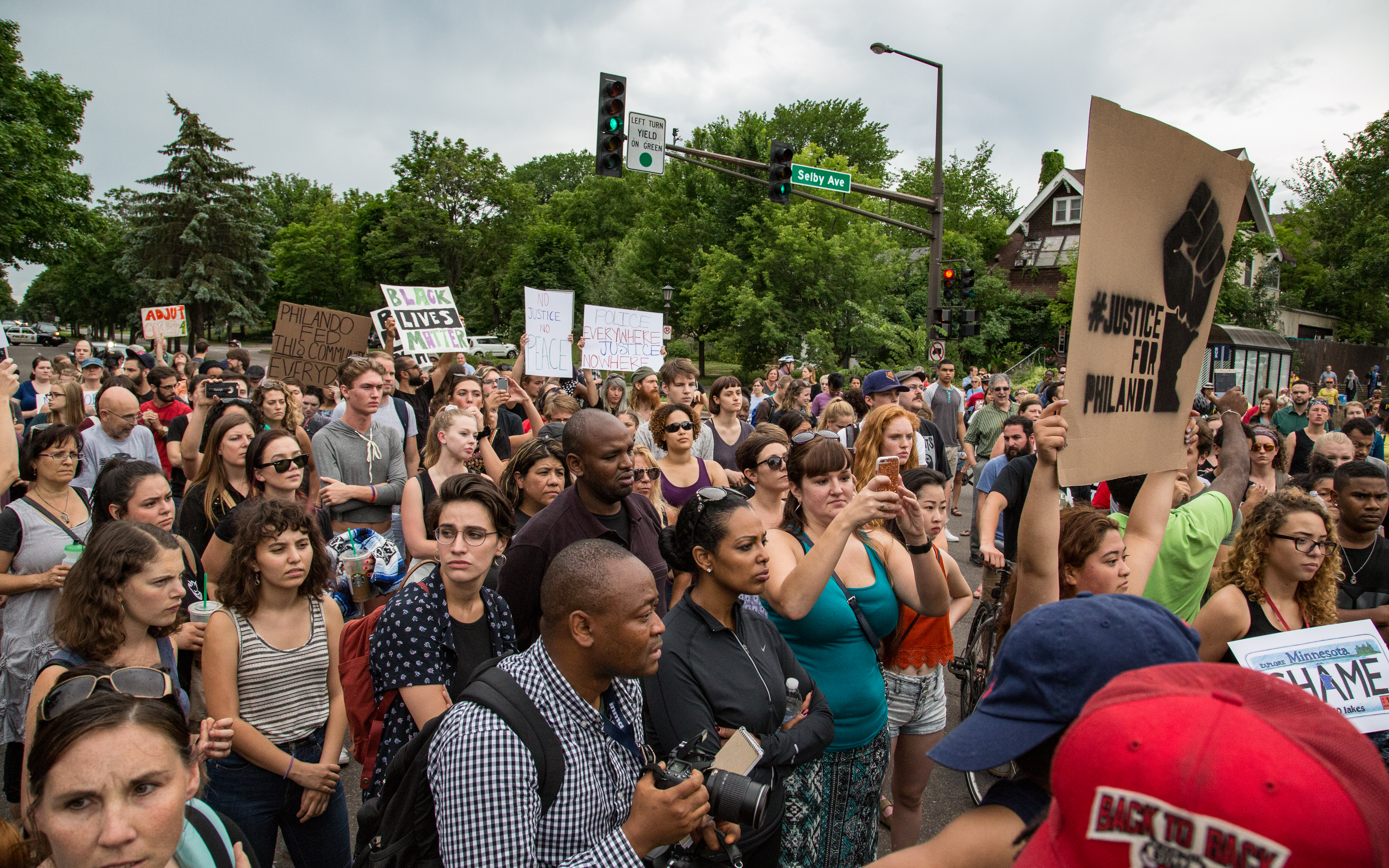 Following the police shooting death of Philando Castile, in Falcon Heights, Minnesota, community members march from the Governor’s mansion to J.J. Hill Montessori School where Castile worked, and back to the Governor’s mansion, in St. Paul. July 7, 2016. Photo: Tony Webster /